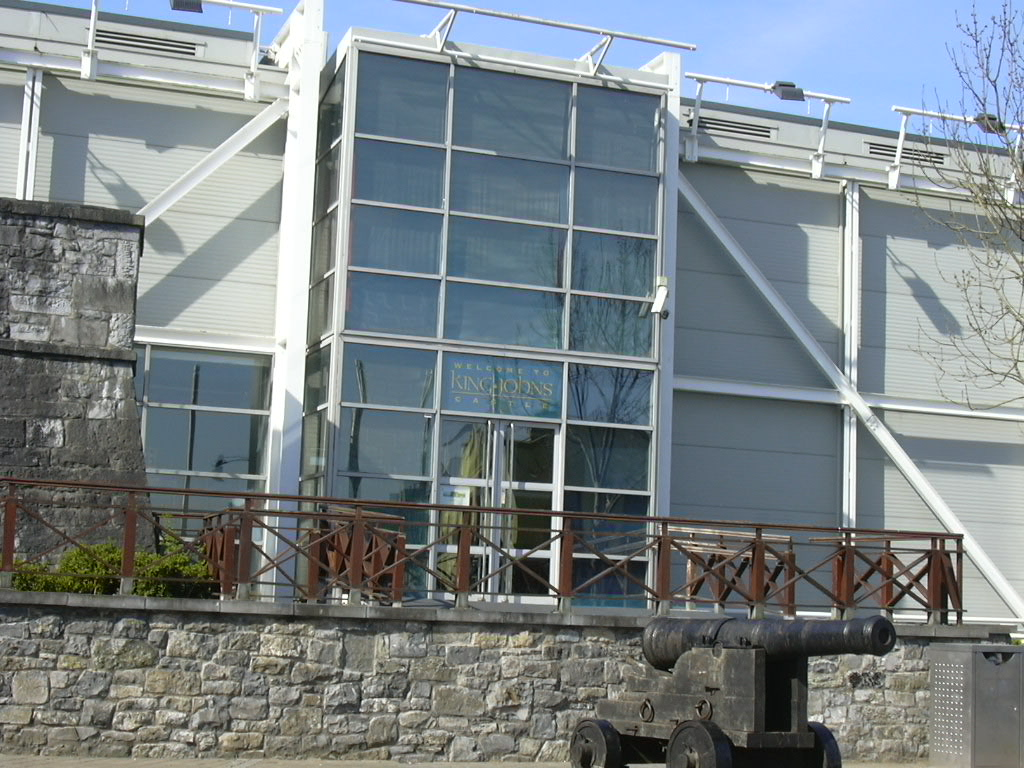 Visitors' entrance to the King John's Castle in Limerick, Ireland. I took this photo myself (on Friday 6 March 2007) and hereby release it into the public domain).